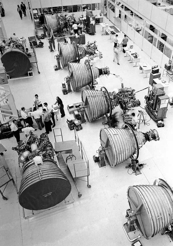 Production of the J-2 engine at a Rocketdyne facility.